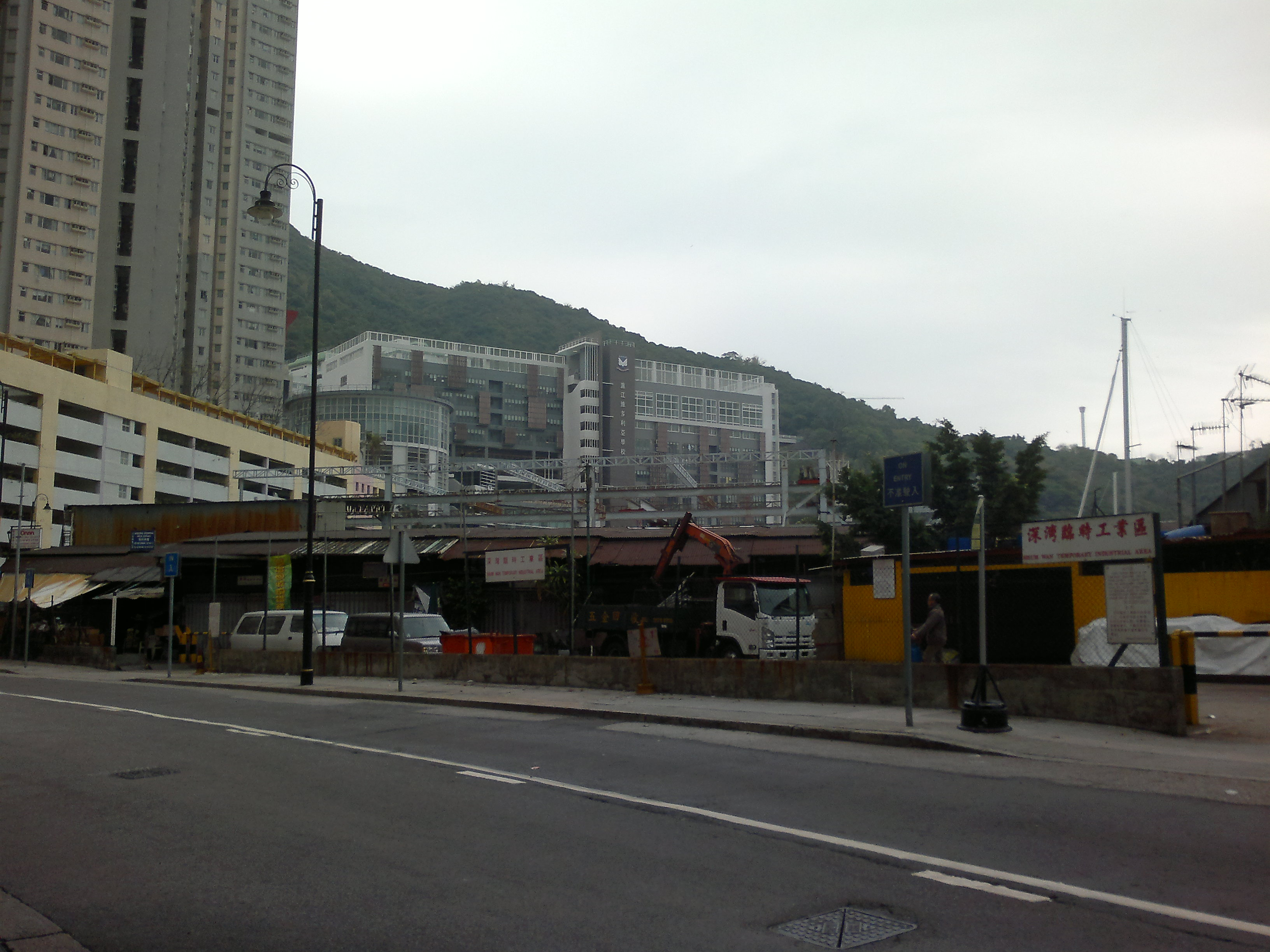 Sham Wan Temporary Industrial Area